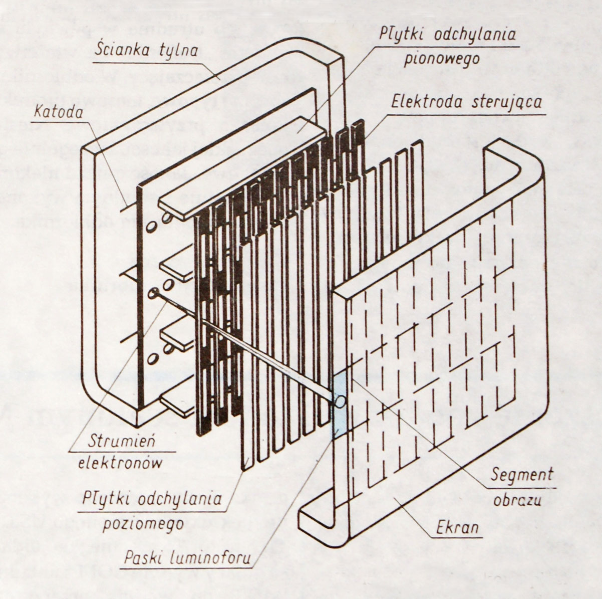 Flat TV tube by Matsushita